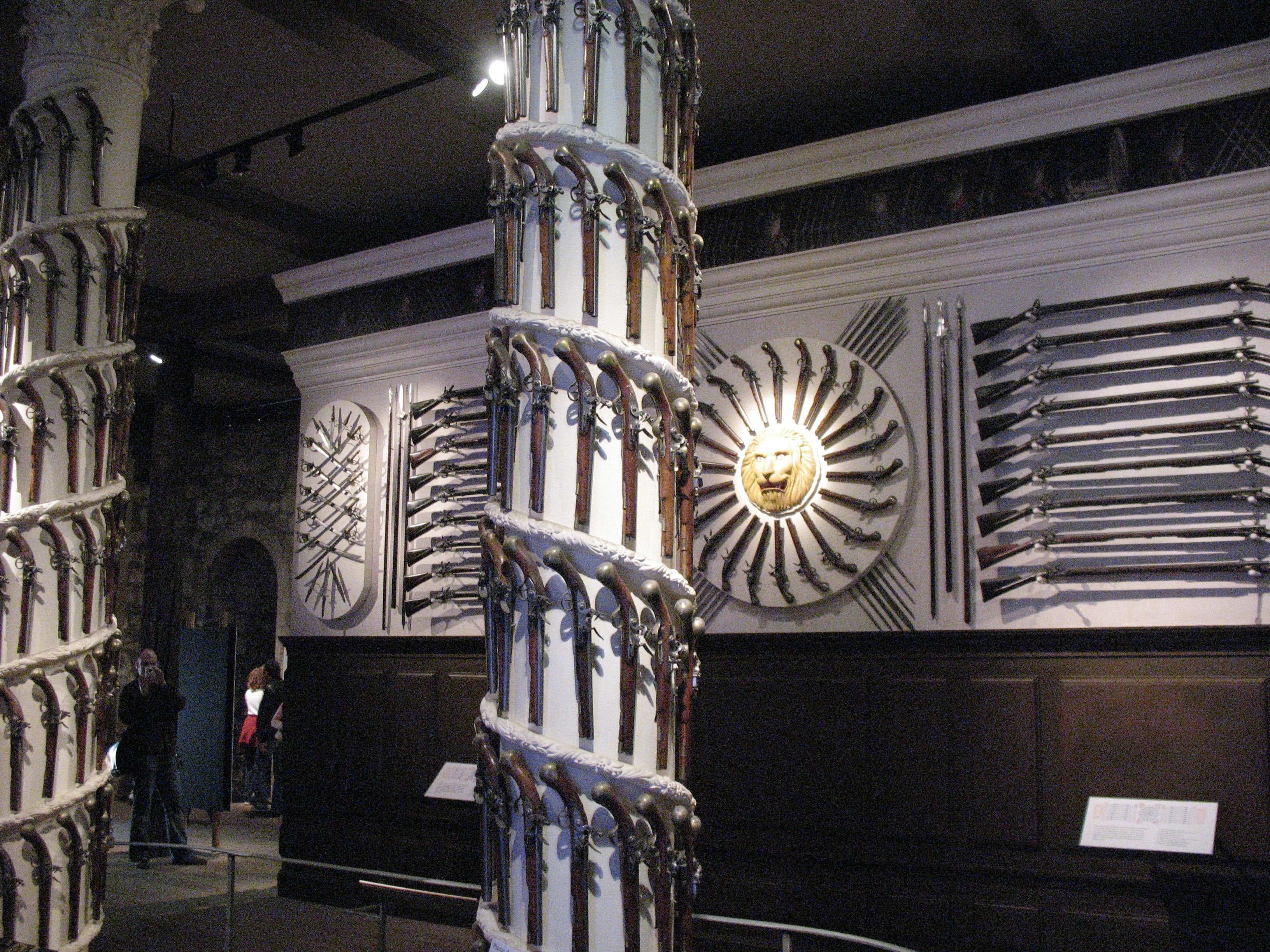 City of London